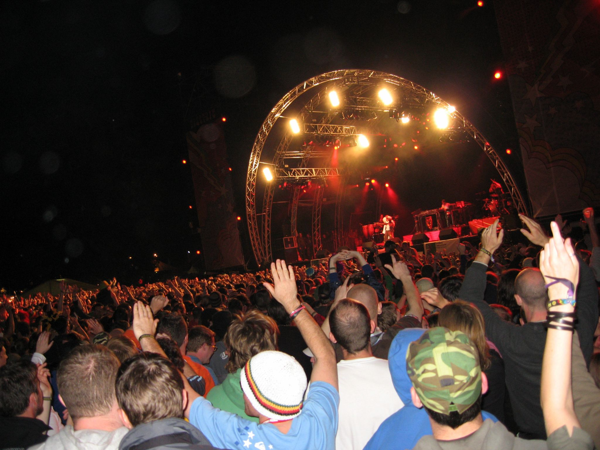 British electronica duo Basement Jaxx in 2006.